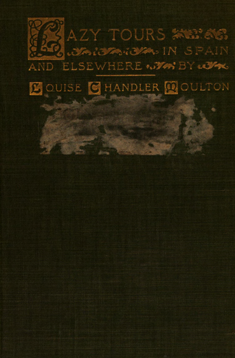 Lazy Tours in Spain and Elsewhere, By Louise Chandler Moulton